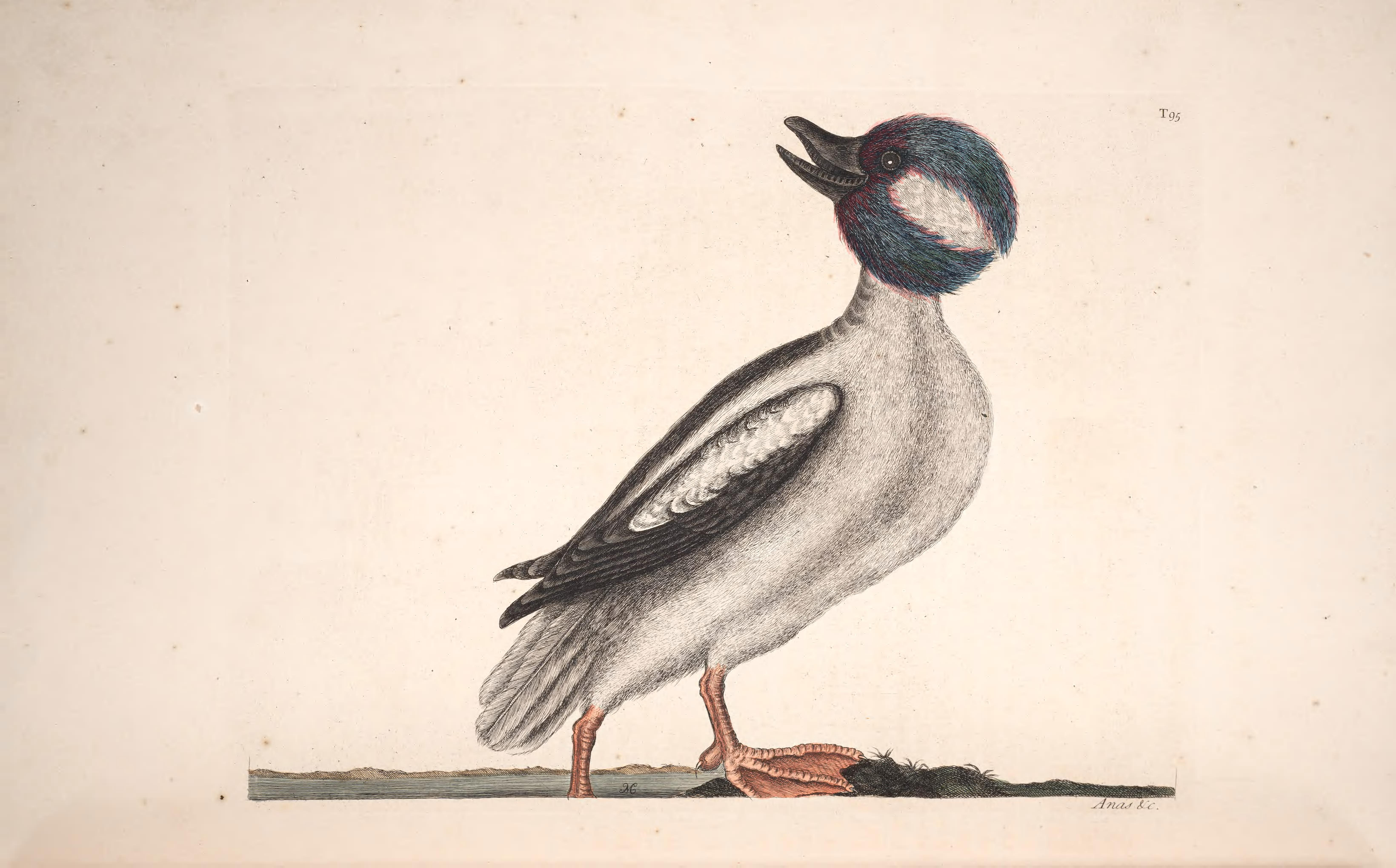 The natural history of Carolina, Florida and the Bahama Islands : containing the figures of birds, beasts, fishes, serpents, insects, and plants : particularly, the forest-trees, shrubs, and other plants, not hitherto described, or very incorrectly figured by authors : together with their descriptions in English and